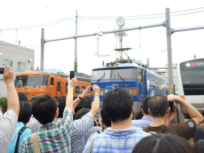 Japanese railfans photographing trains at an open-day event at the JR East Tokyo General Rolling Stock Center